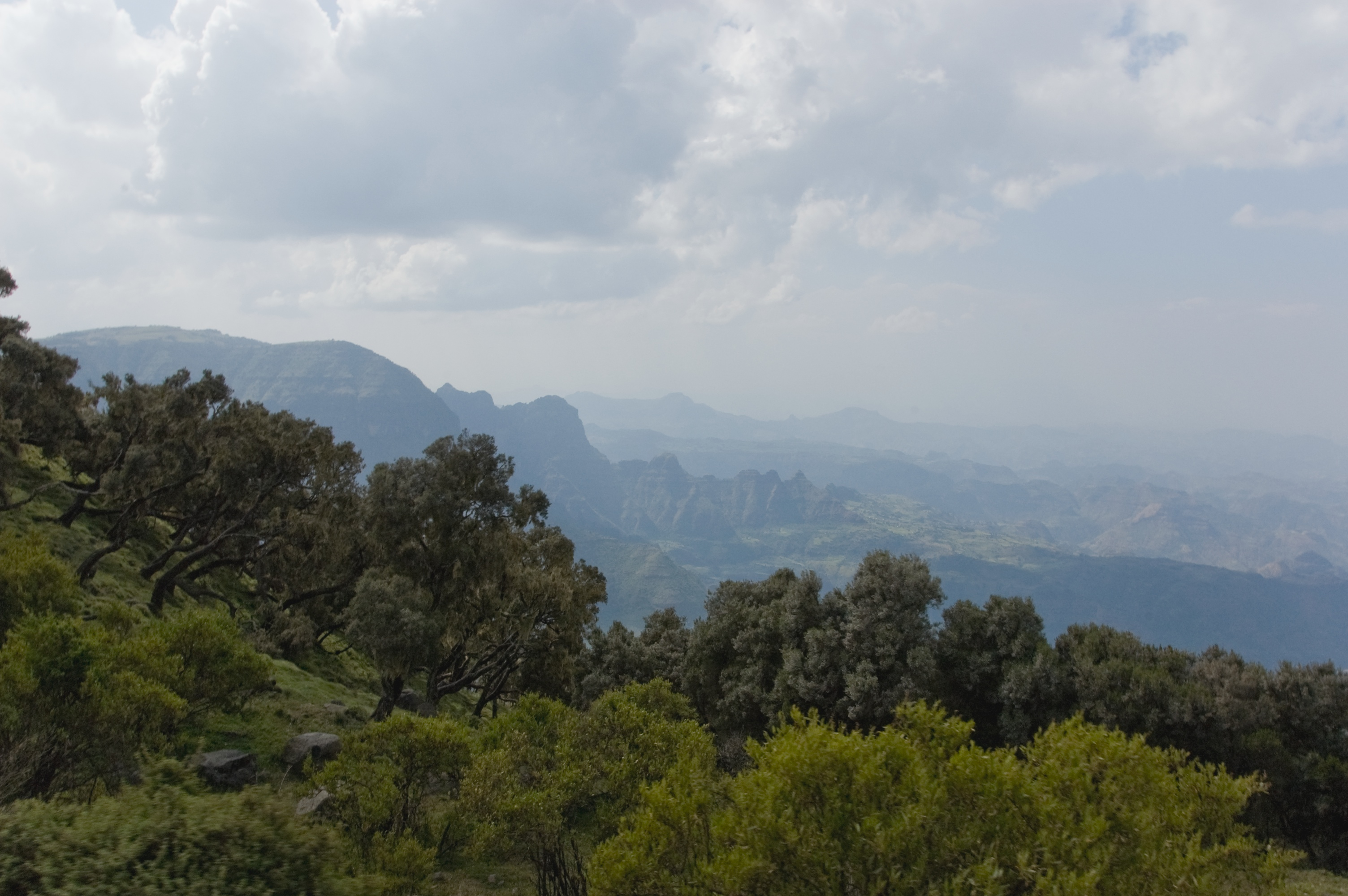 Simien Mountains National Park, Ethiopia.